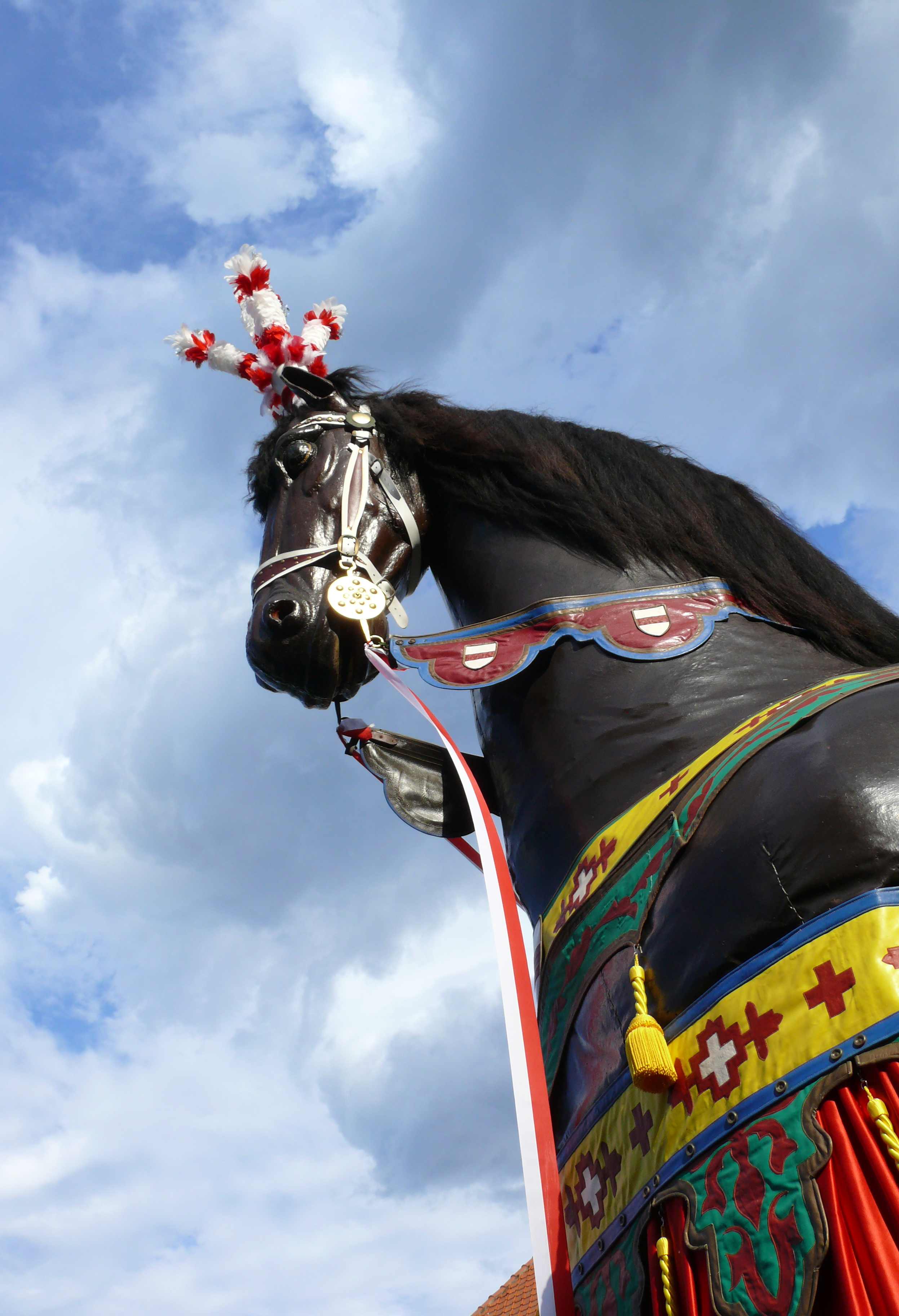 The magnificent head of Ros Beiaard(Steed Bayard), presumably carved in 1754, but possibly dating back to the 15th century. According to lore the head was carved by the artist Lieven van de Velde.